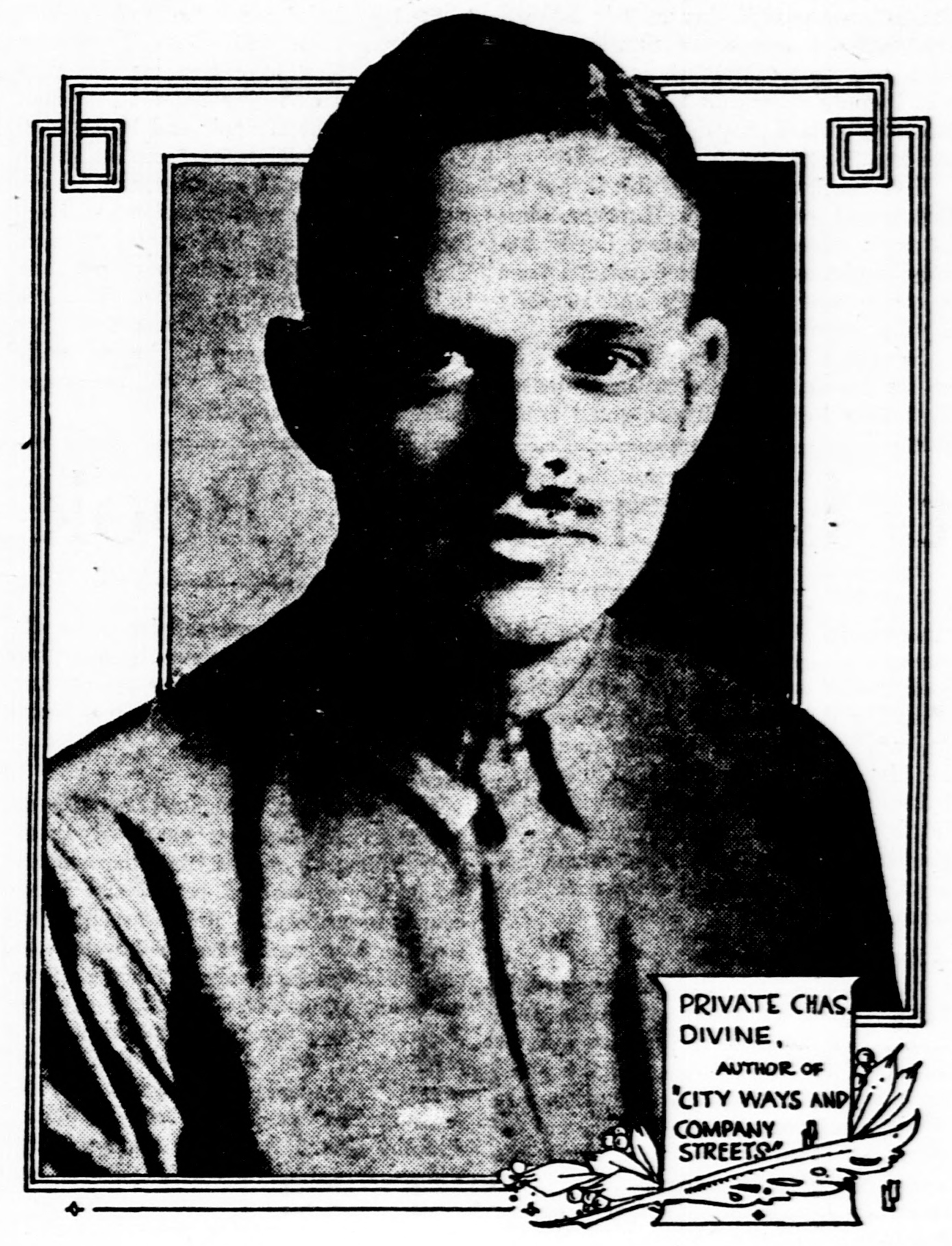 Charles Harding Divine (January 20, 1889 – May 8, 1950) was an American poet and playwright. This is a photo printed in a contemporary newspaper.